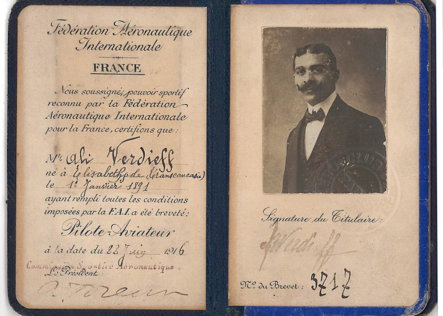 The pilot book of Ali bey Verdiyev graduated in 1916 aviation school in Paris. Museum of History of Azerbaijan.